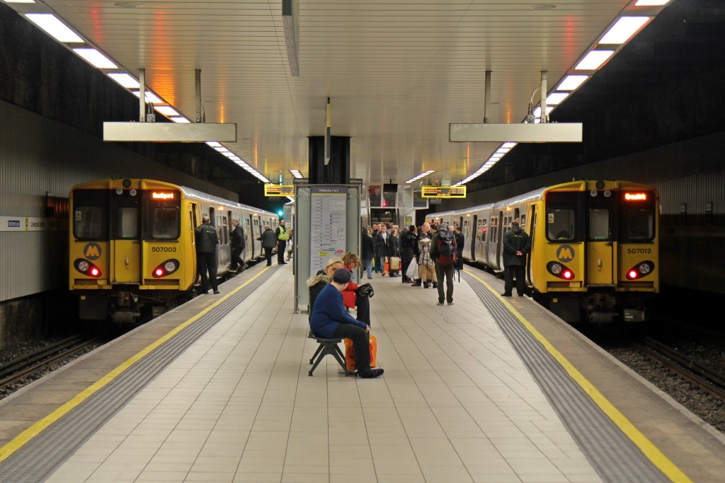 Merseyrail Class 507s, Liverpool Central railway station